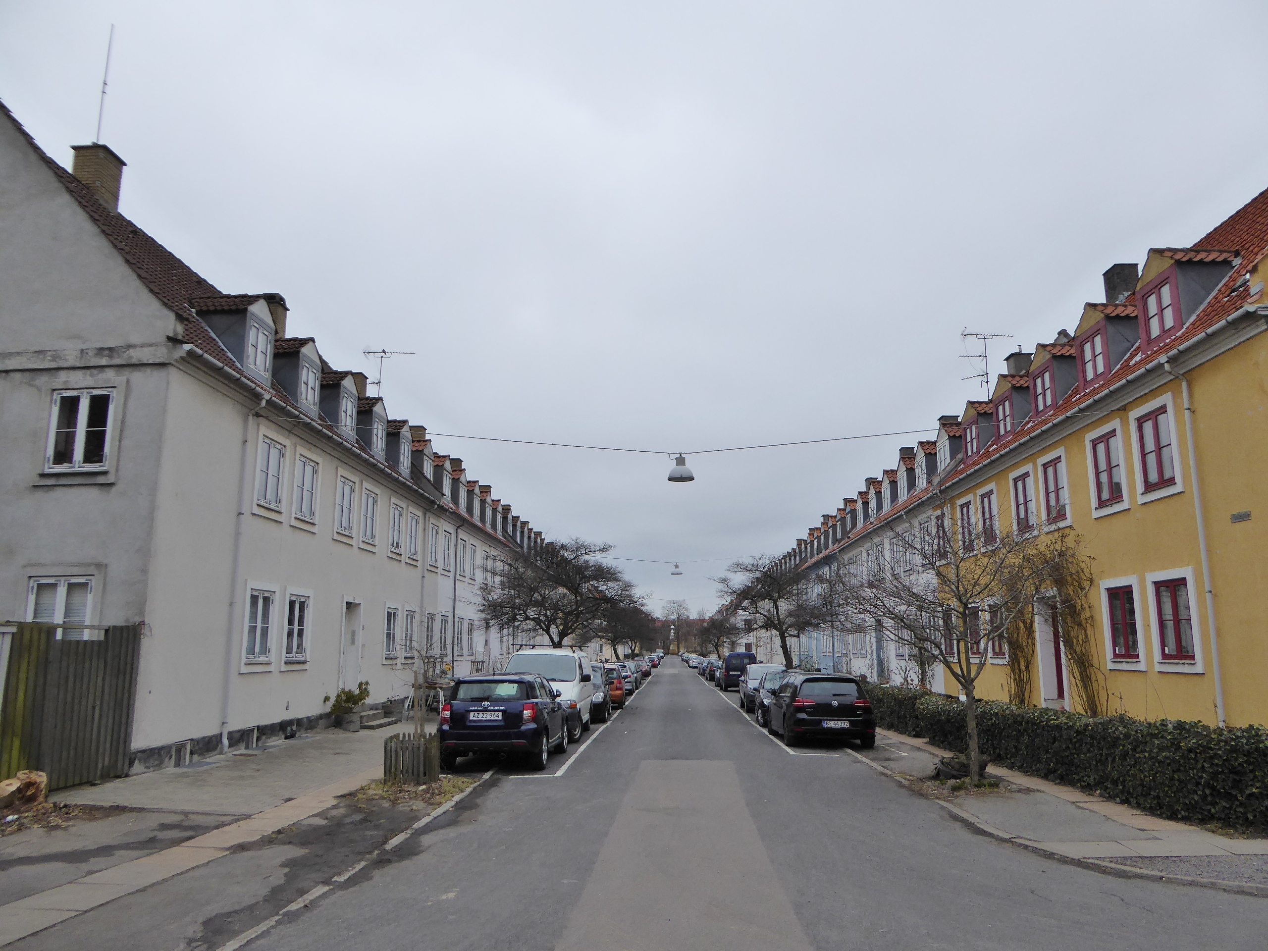 The street Vibekegade in the neighborhood Vibekevang in Østerbro in Copenhagen.